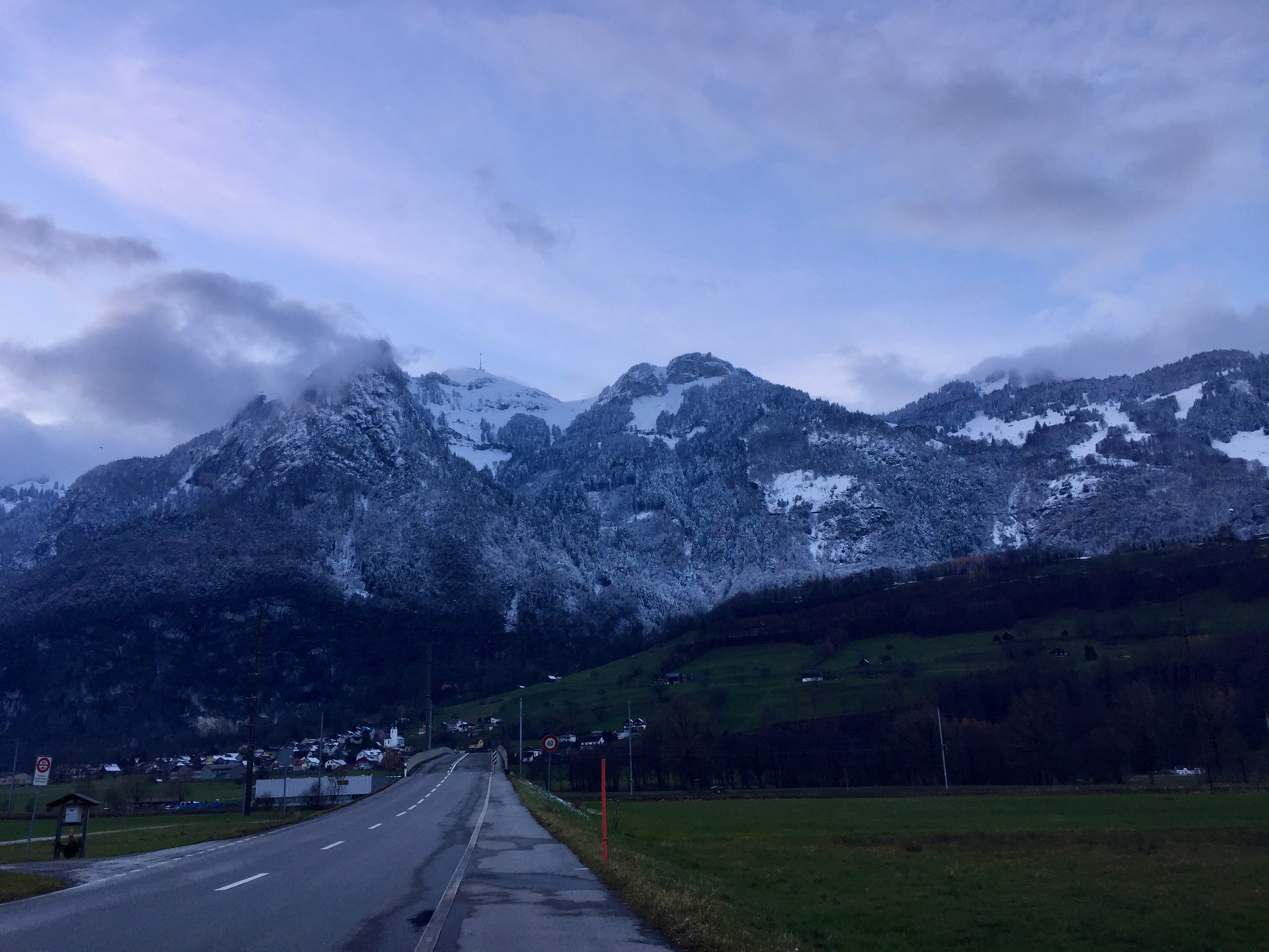 Picture of Lienz in Kanton St.Gallen, Switzerland